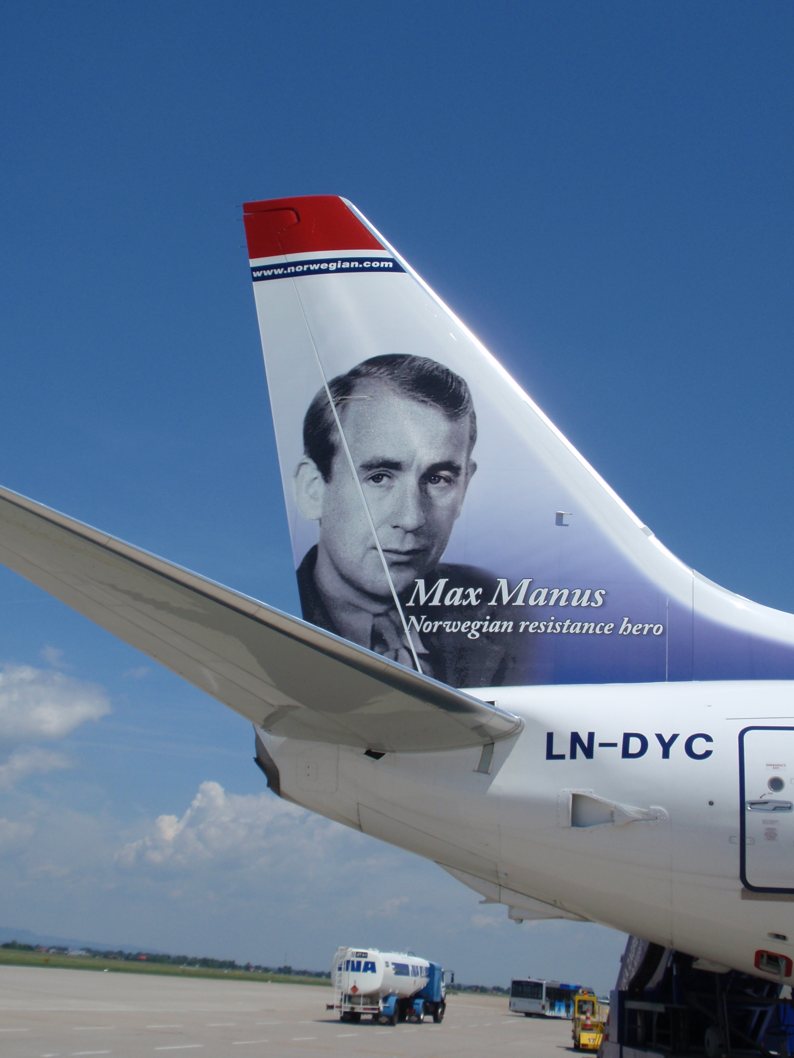 Norwegian B-737 800 (LN-DYC)